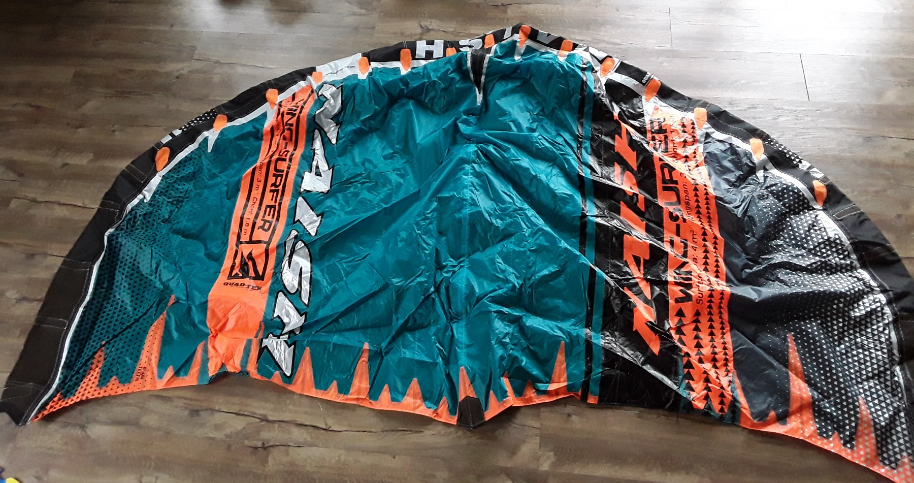 Naish Wingsurfer